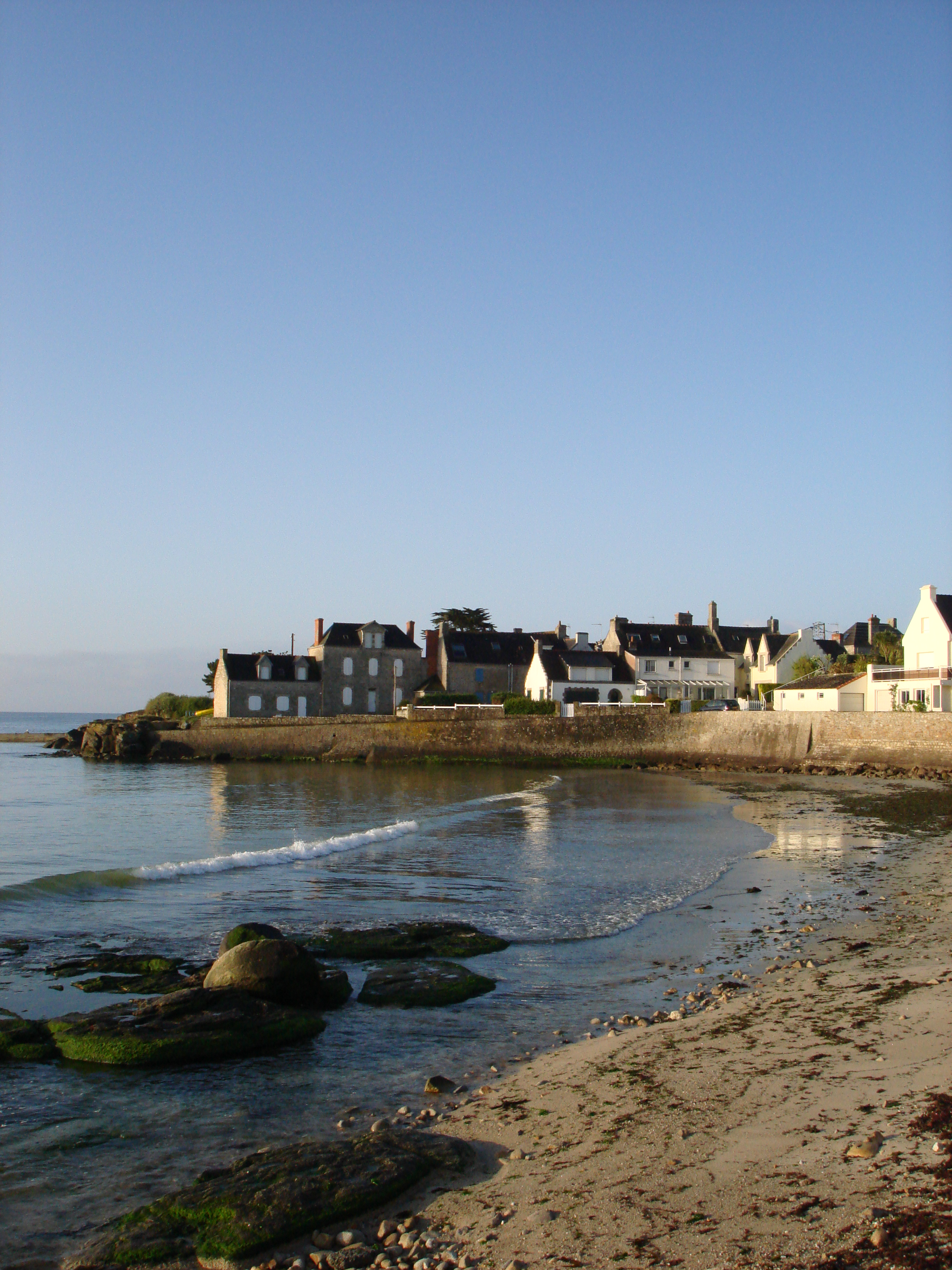 City of Gâvres